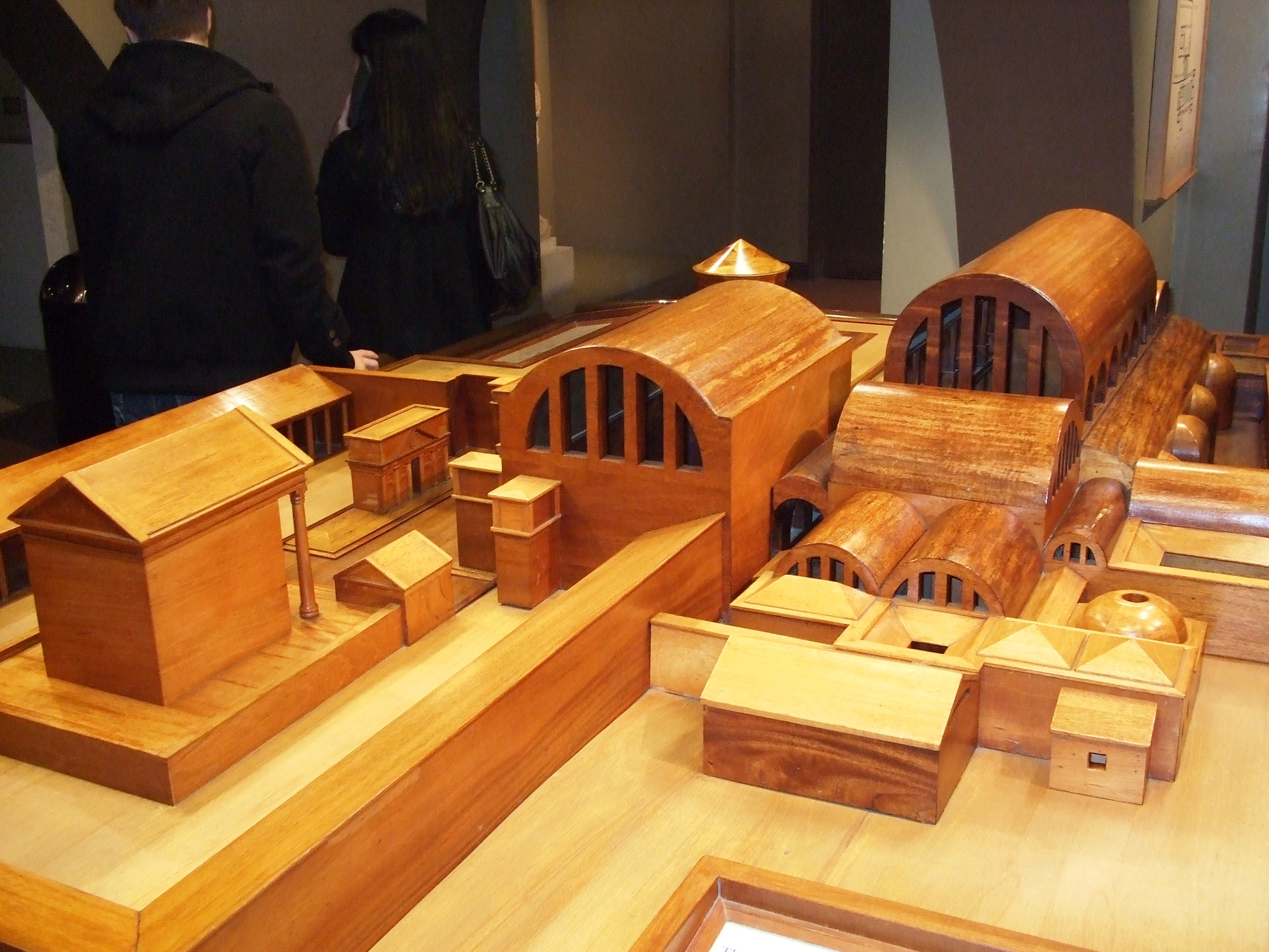 Model of the Roman Baths and Temple of Sulis Minerva, Bath, Somerset as it would have been in the 4th century